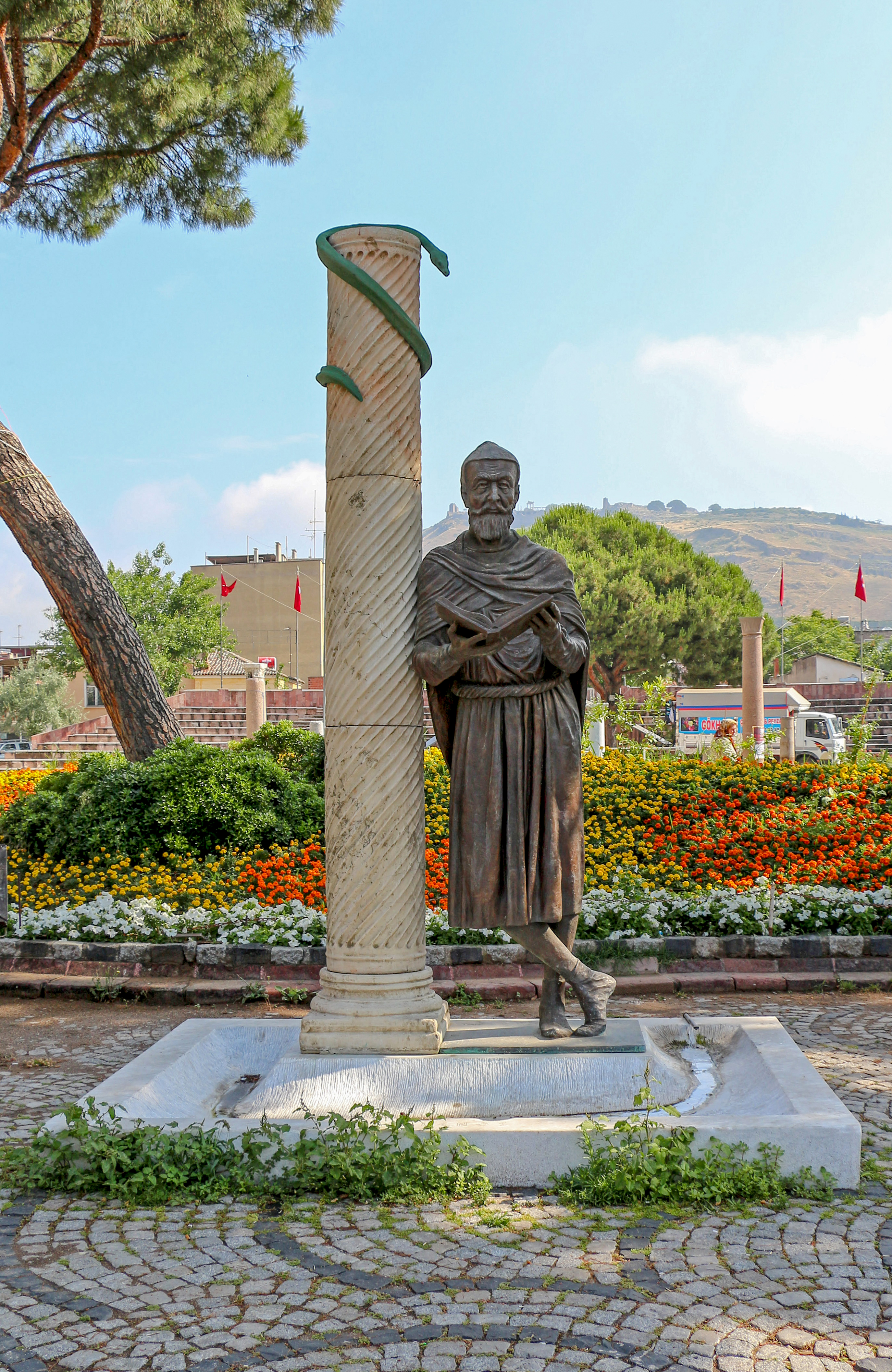 Statue of Galen of Pergamon, Bergama, Turkey